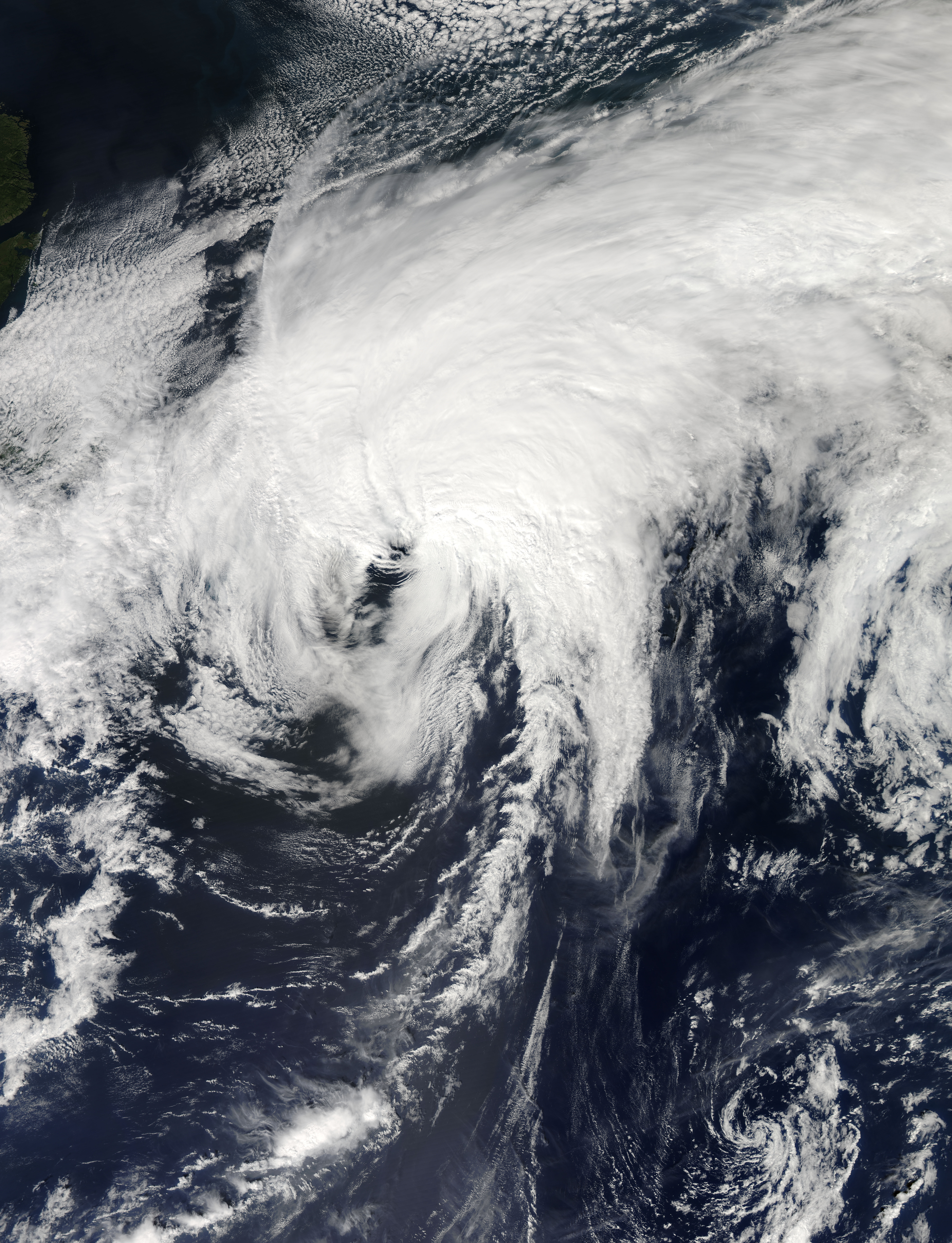 Post-Tropical Cyclone Cristobal (04L) in the North Atlantic Ocean